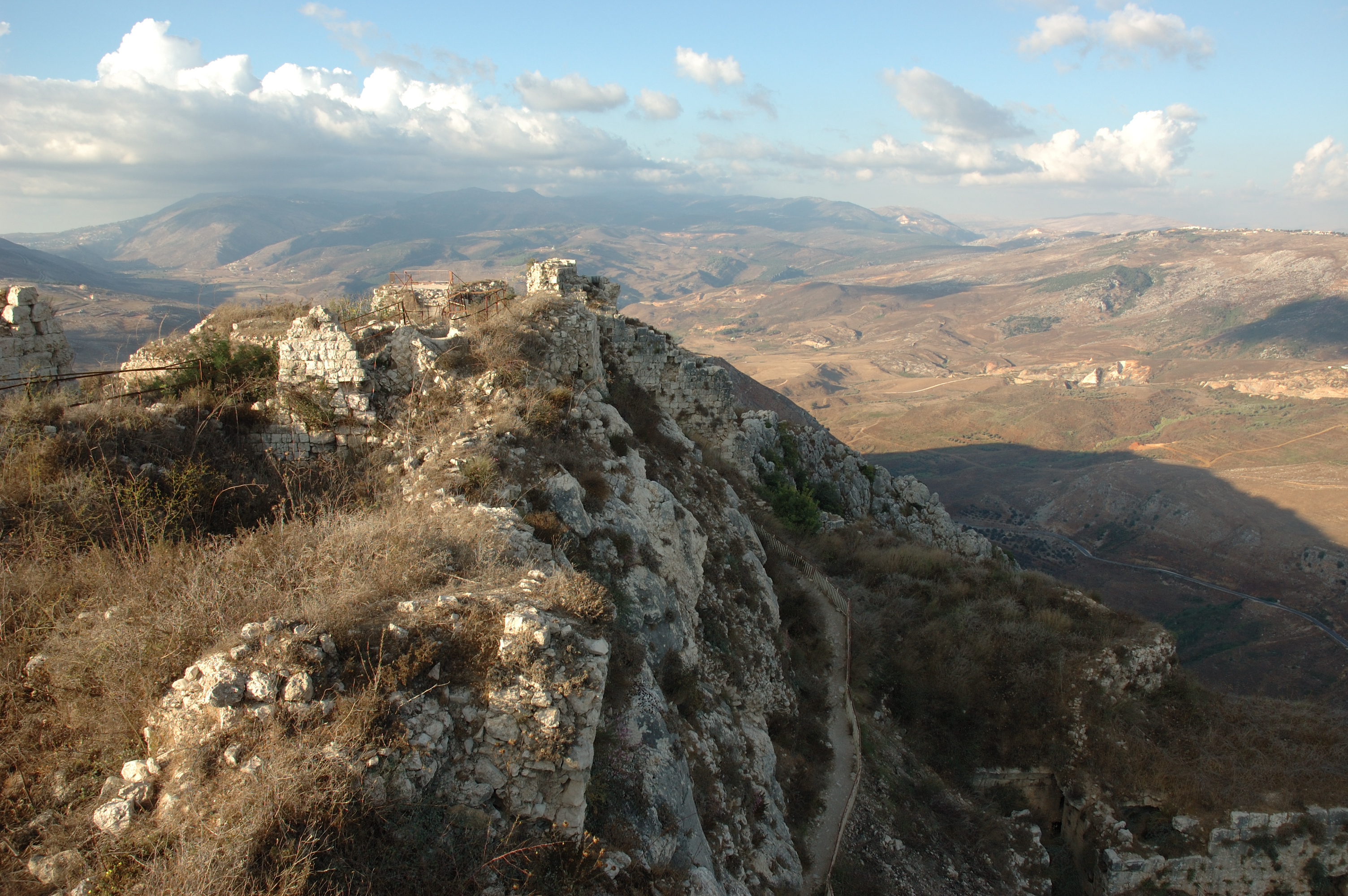 Crusaders, Saladin, Arabs, Mamelukes, Ottomans, Palestinians, Israelis, Hezbollah have fought over this piece of rock Beaufort Castle